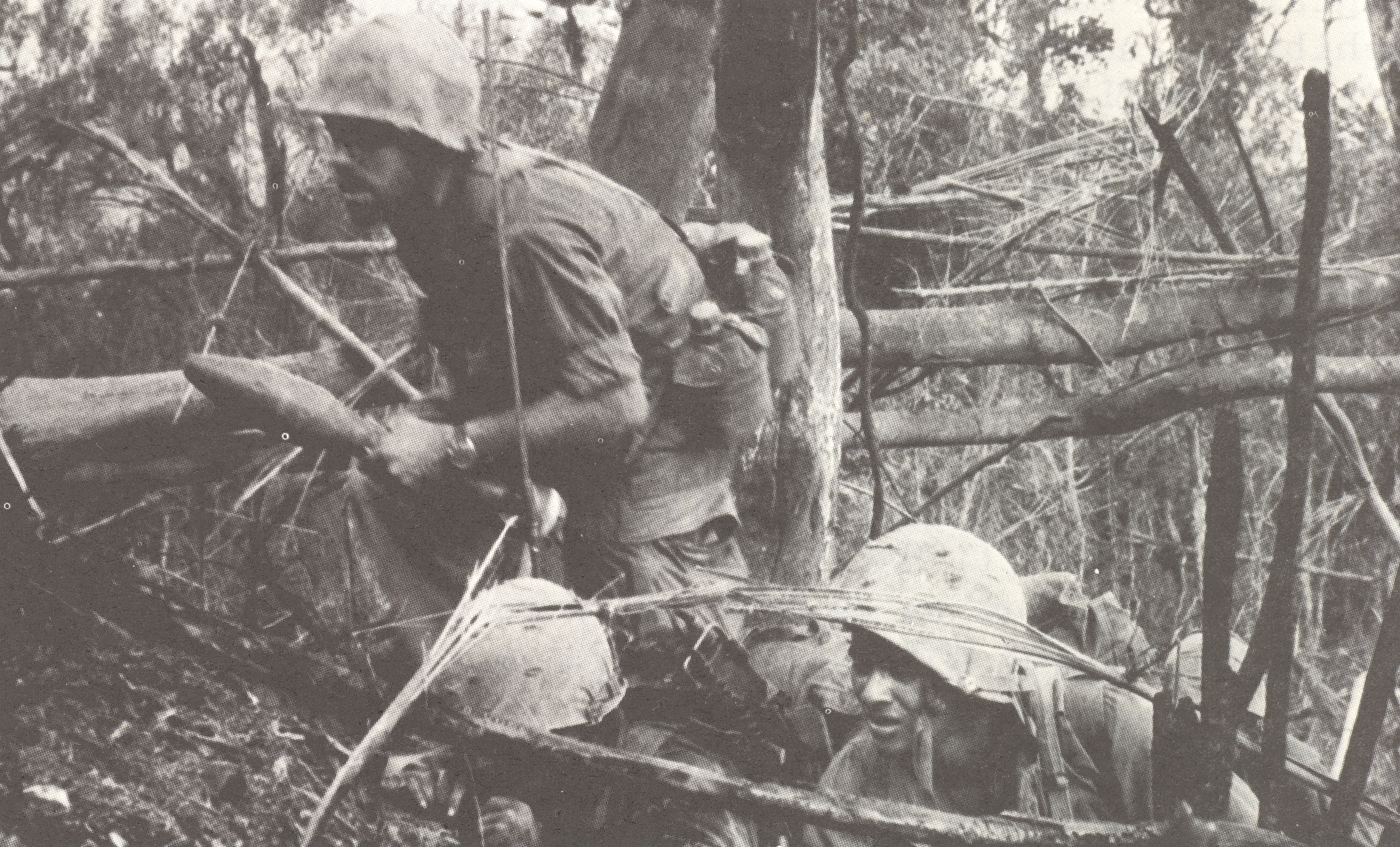 A United States Marine with 3d Battalion, 4th Marines moves forward during Operation Prairie of the Vietnam War.